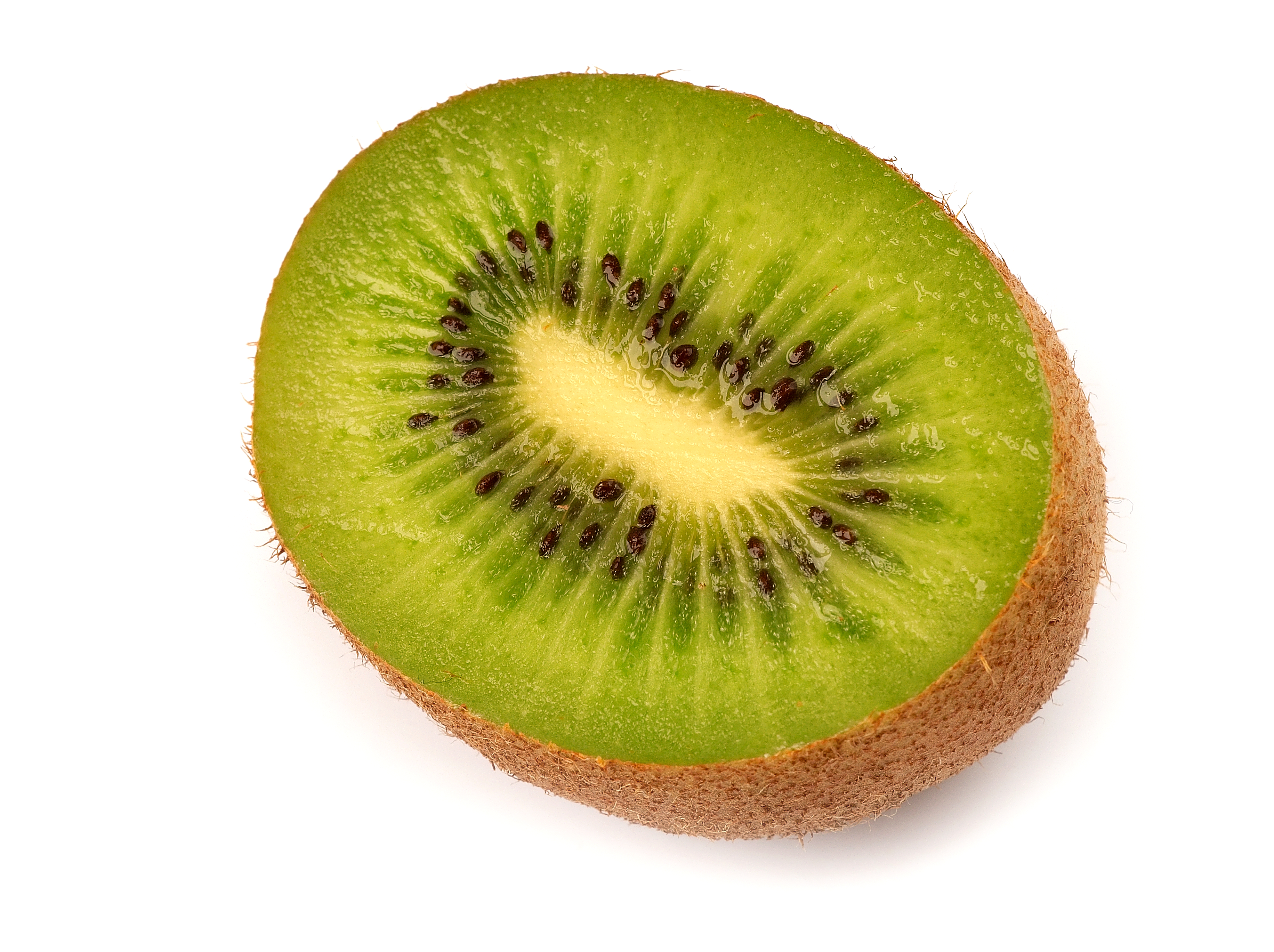 This image shows a cut kiwifruit.